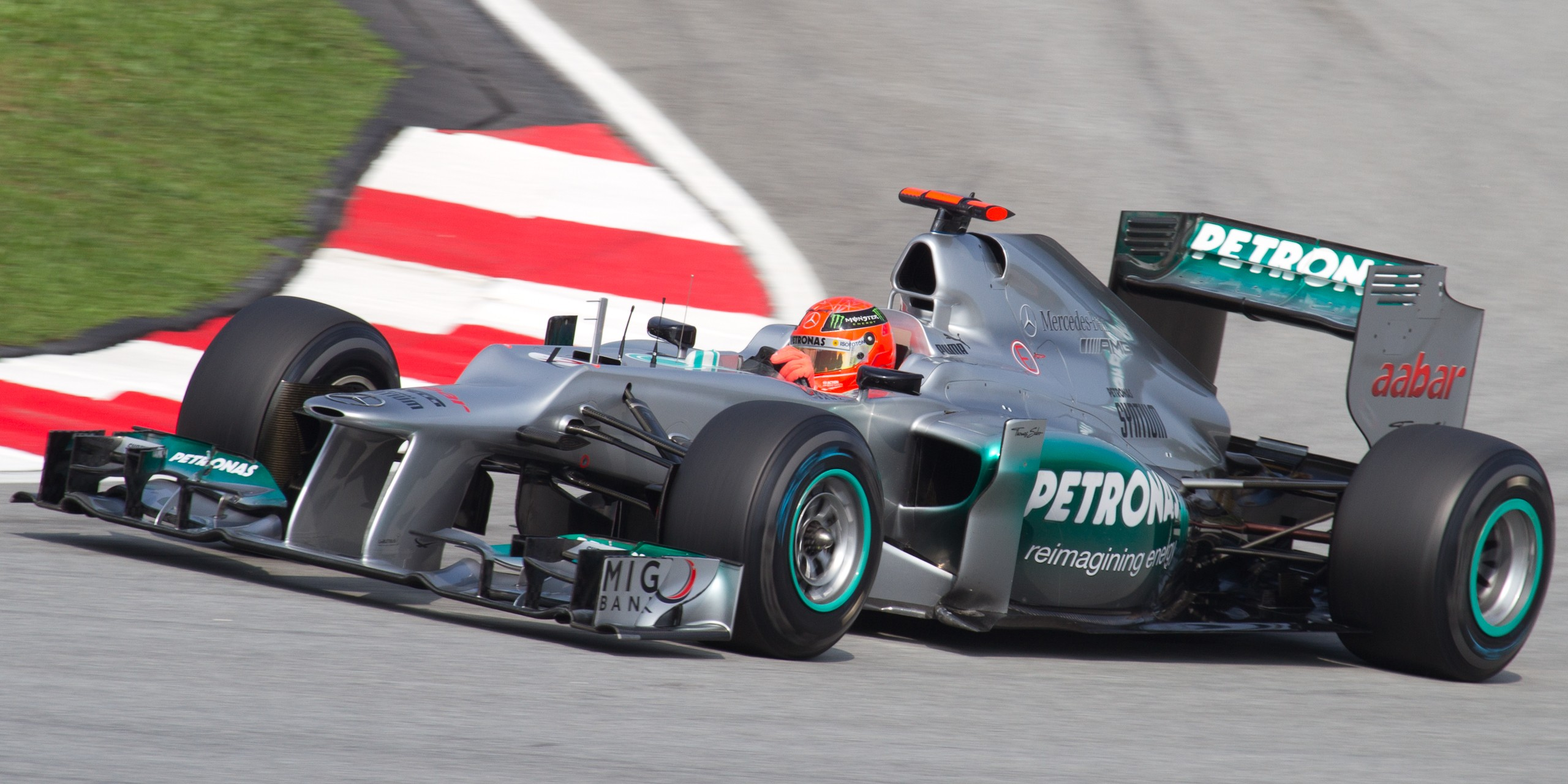 Formula One 2012 Rd.2 Malaysian GP: Michael Schumacher (Mercedes) during the qualify session on Saturday.